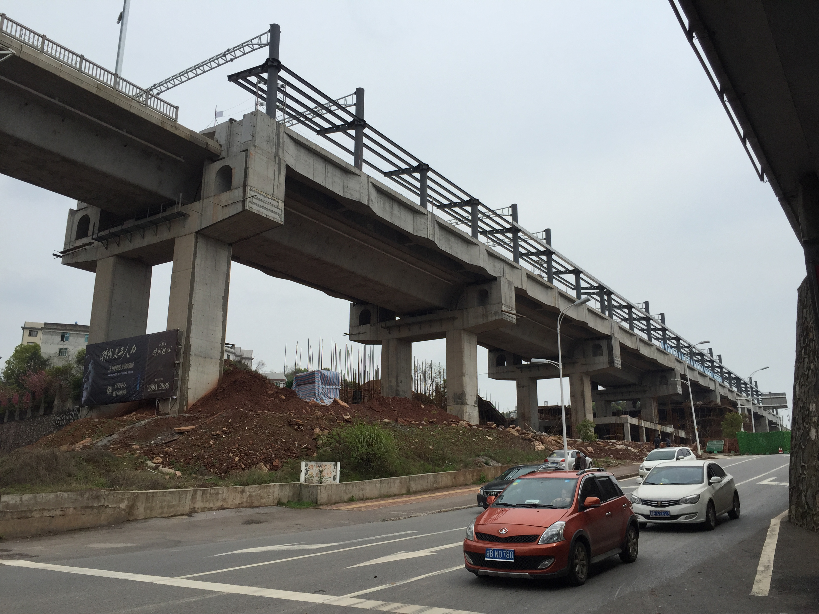 It's a station on the Changsha–Zhuzhou–Xiangtan Intercity Railway, due to open in late 2016.